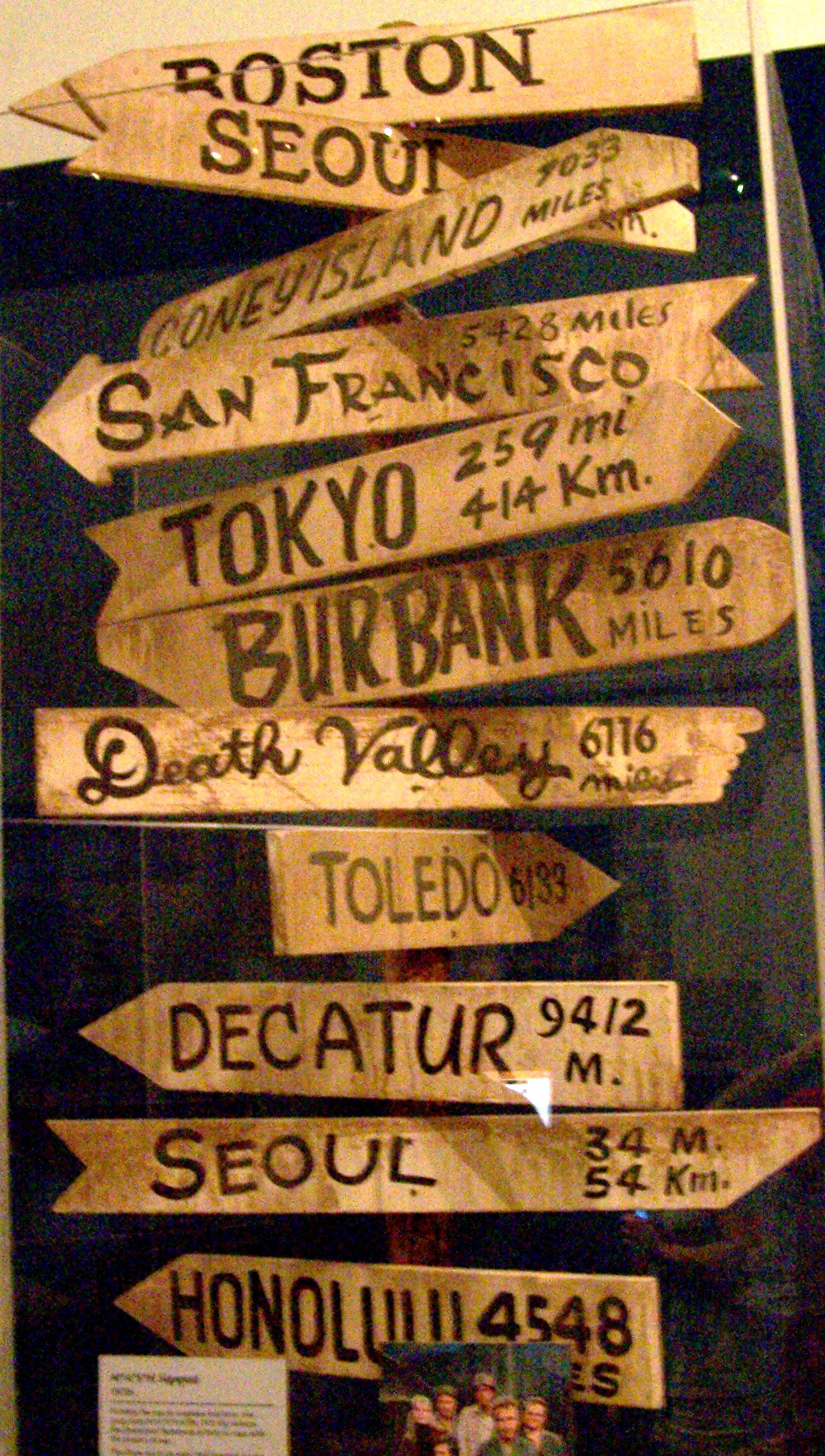 M*A*S*H sign